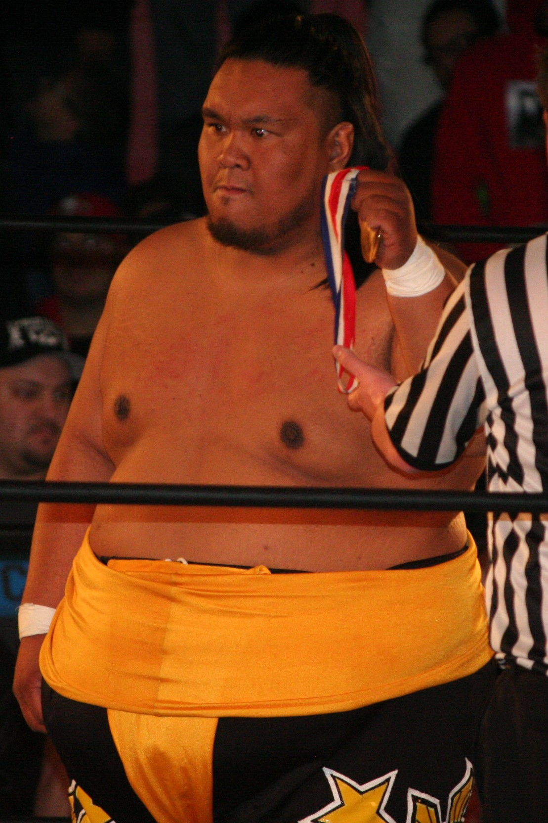 Fallah Bahh at a PWS show in December 2014.